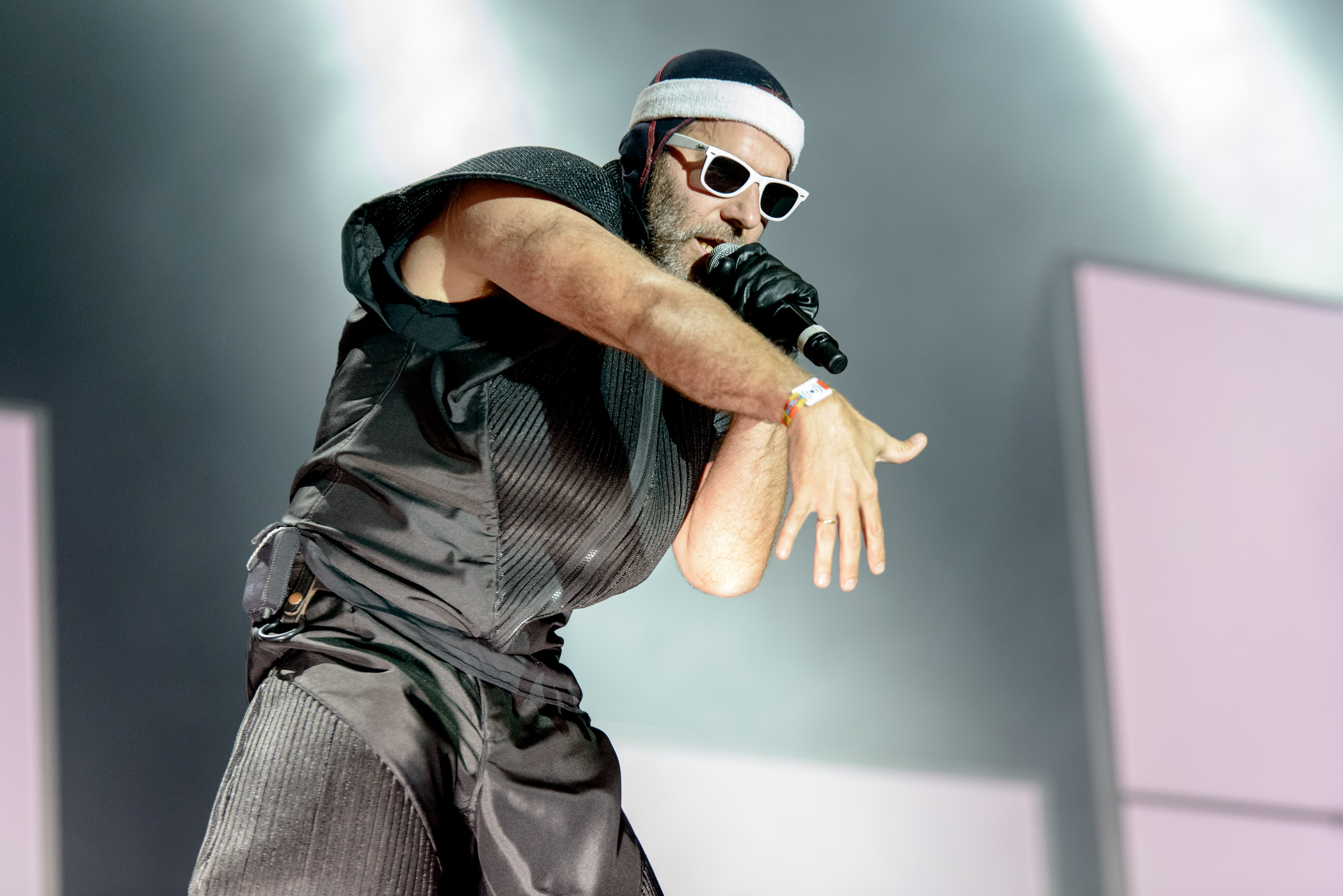 Deichkind @ Lollapalooza